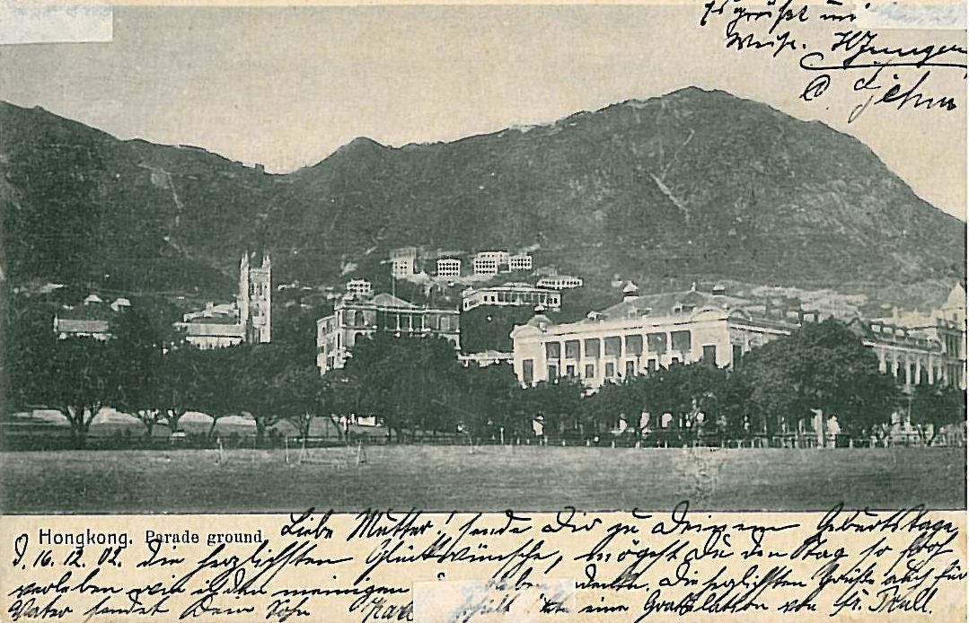 historic view of Hongkong